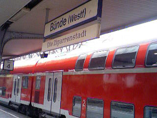 Trains station in town of Bünde, District of Herford, North Rhine-Westphalia, Germany. Sign translates to: Bünde - home of cigars.